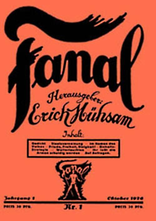 First edition of Fanal, published by Erich Mühsam.